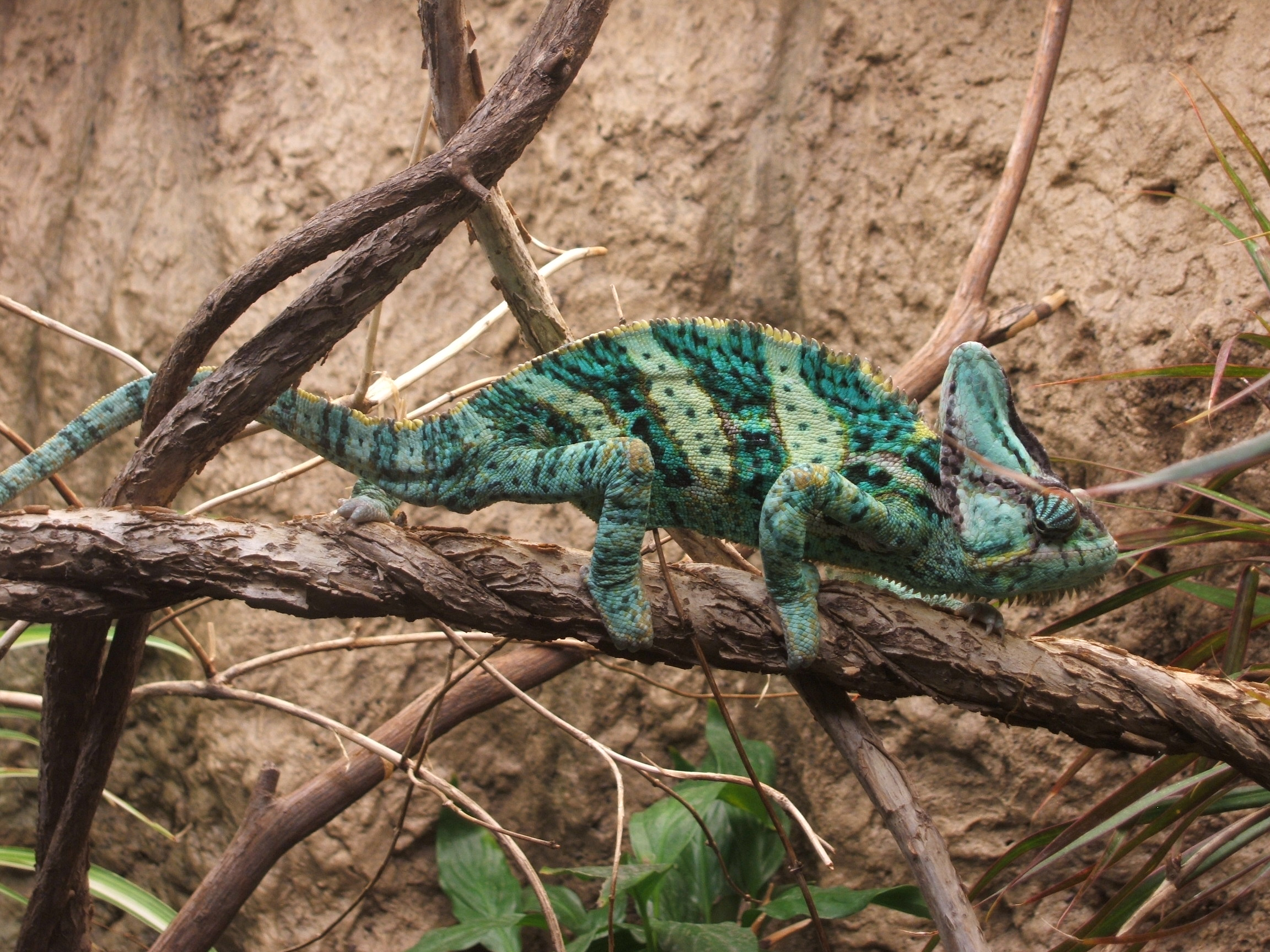 Veiled chameleon (Chamaeleo calyptratus) at the Boston Museum of Science